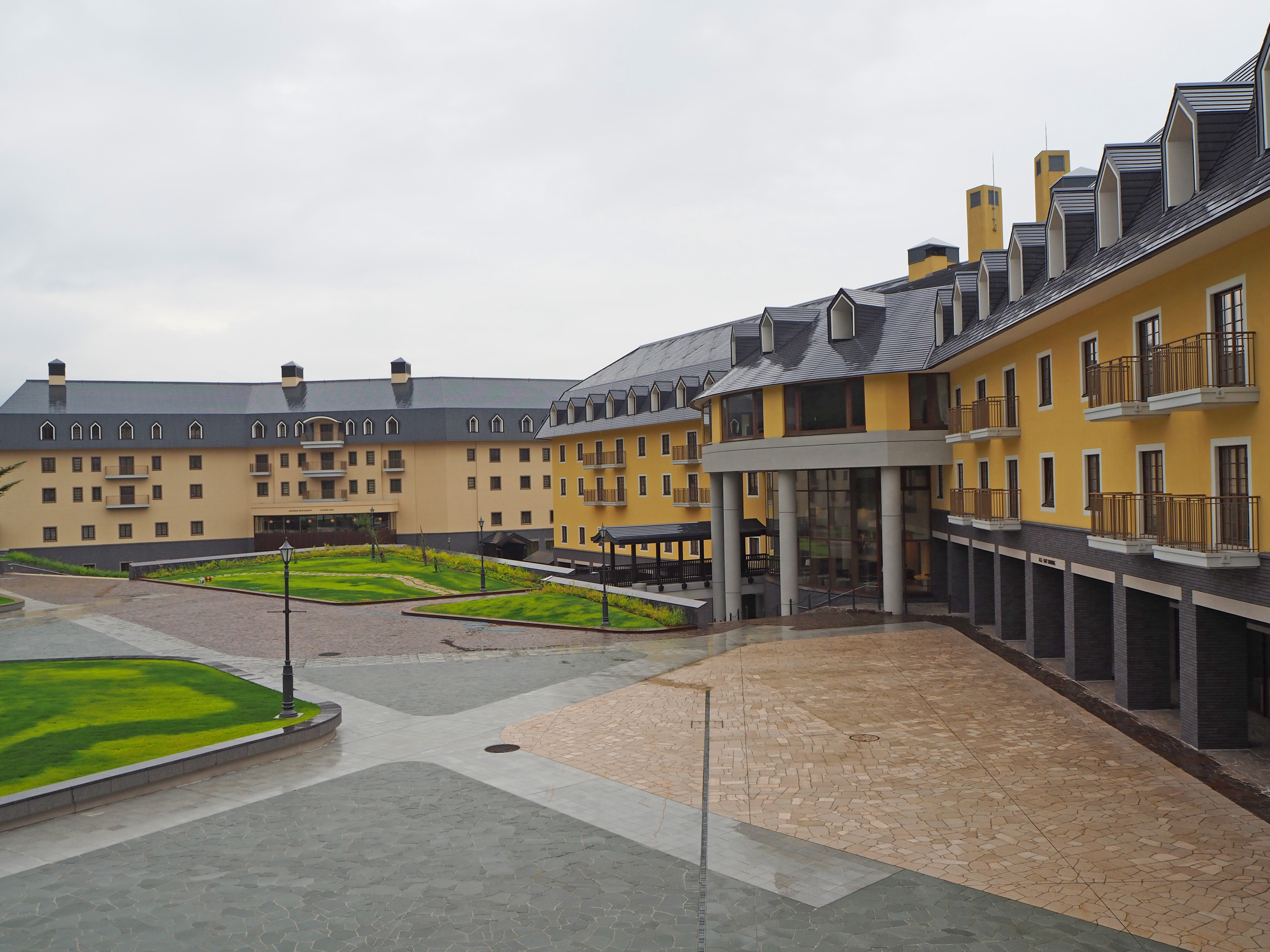 Lotte Arai Resort